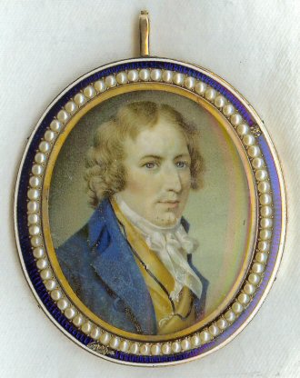 Harman Blennerhassett, from a Miniature Taken in London in 1796, Now Owned by Dr. Francis C. Martin of Boston. Courtesy of the New York Public Library Digital Collection.